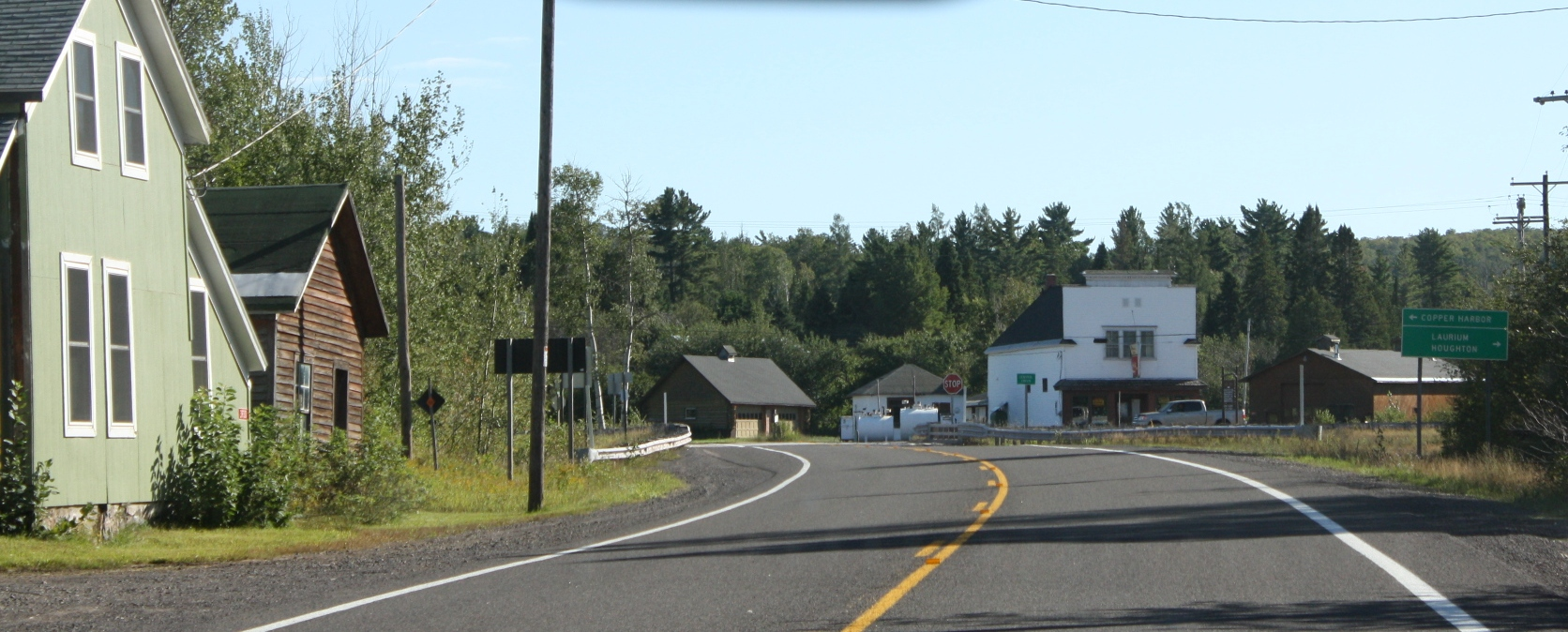 Looking at downtown Phoenix, Michigan on M-26 (Michigan highway).